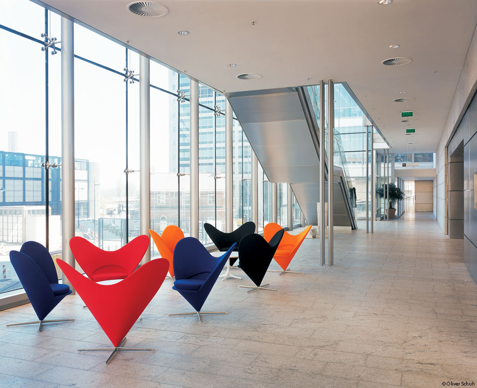 Verner Panton's Heart Cone chair designed in 1959